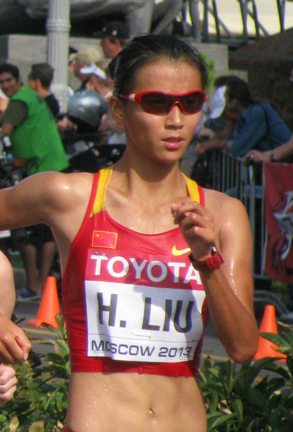 Liu Hong in action during Women's 20 kilometres walk at the 2013 World Championships in Athletics